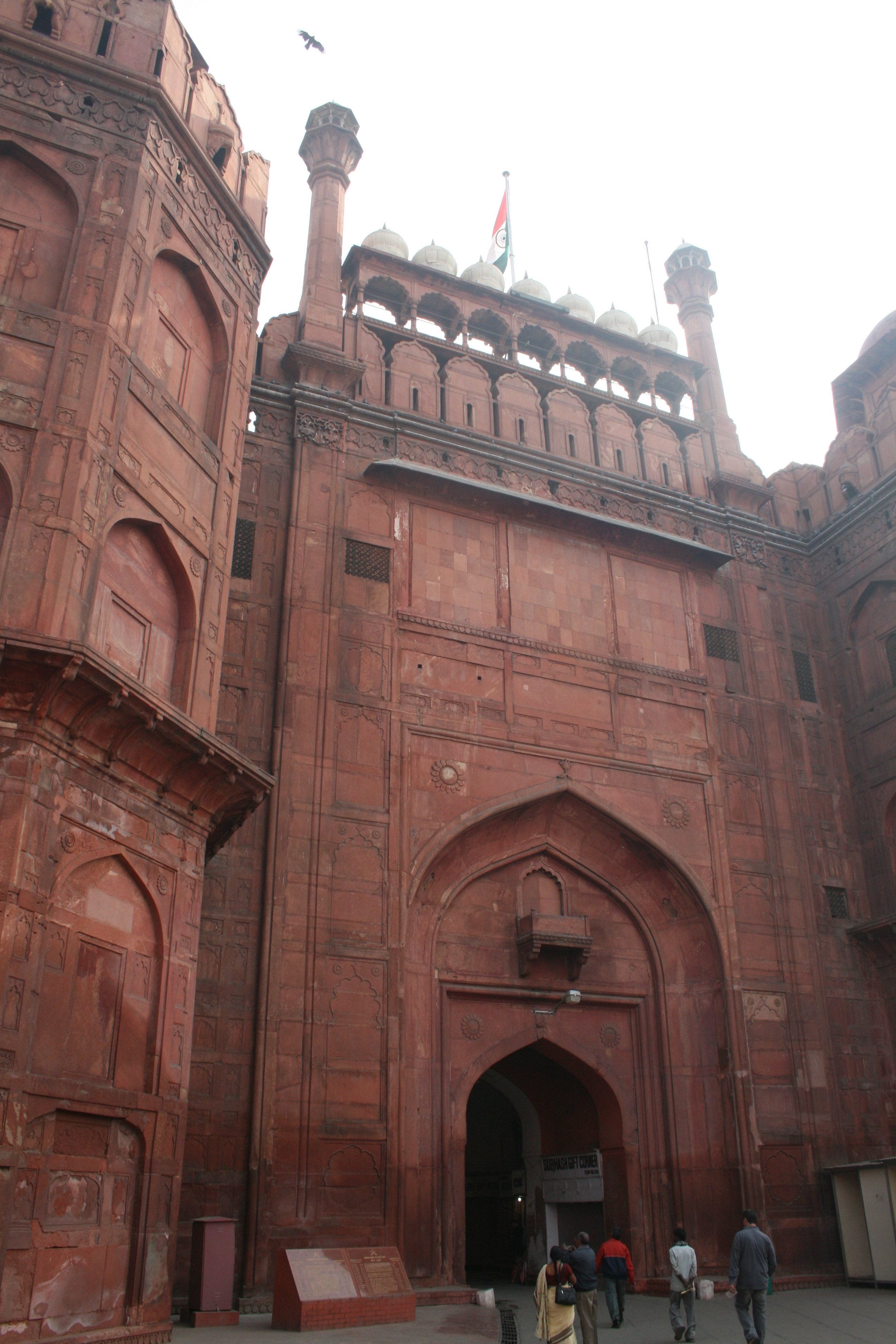 Red Fort, Delhi, India